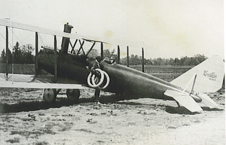 Image of Curtiss Oriole at Long Branch Aerodrome in the 1920s.